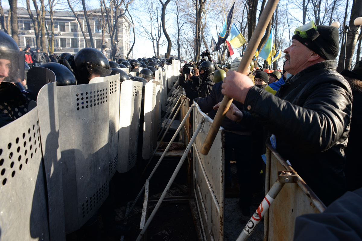 Barricade line separating interior troops and protesters. Clashes in Kyiv, Ukraine. Events of February 18, 2014-2